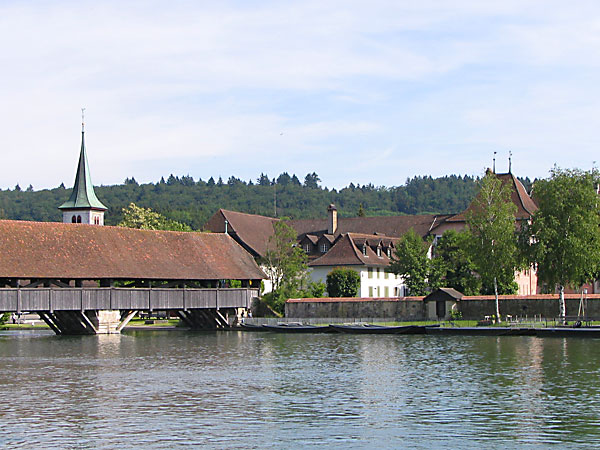 The bridge over the river the Aare at Wangen an der Aare, Switzerland